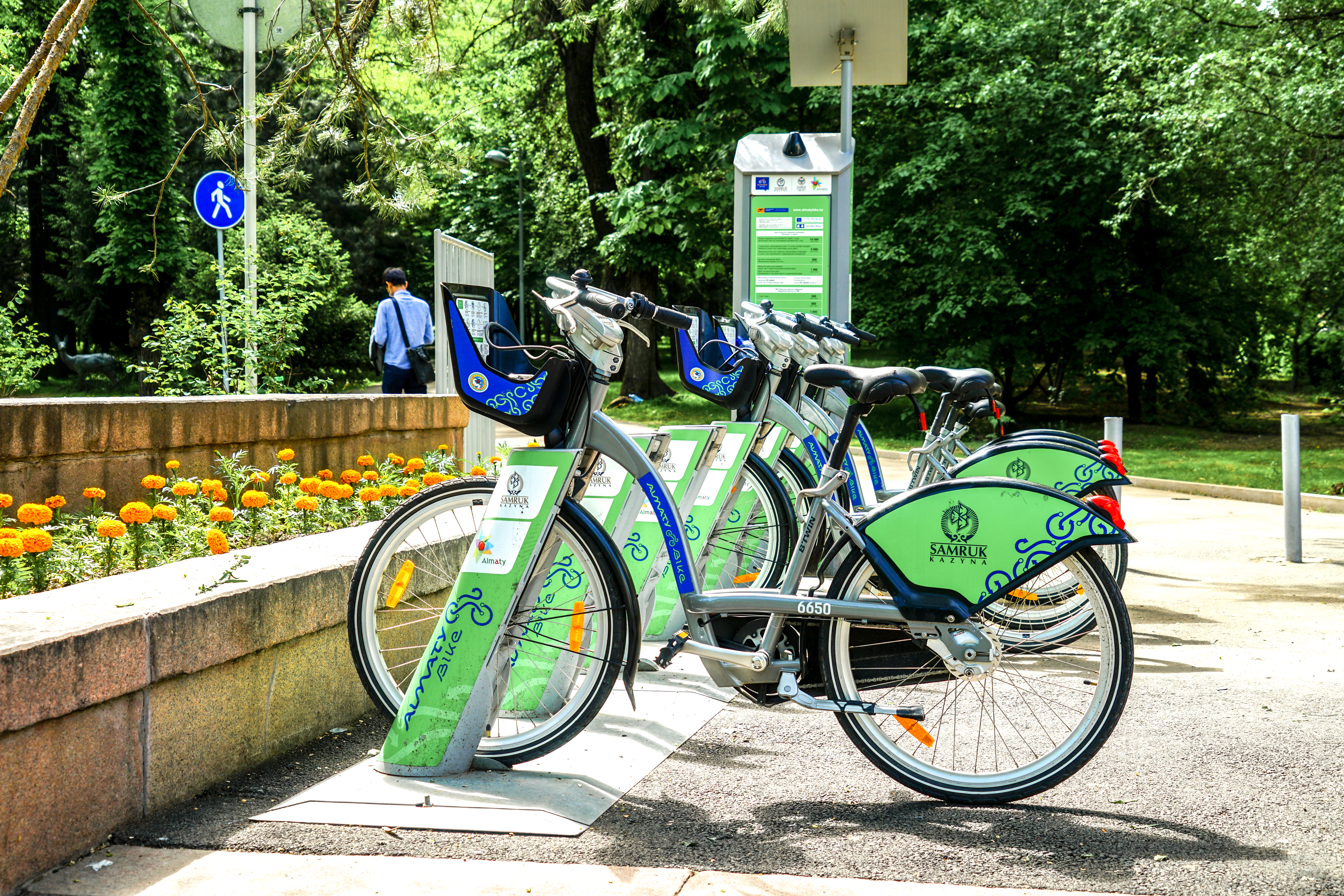 Photo of a bike rental station in Almaty.